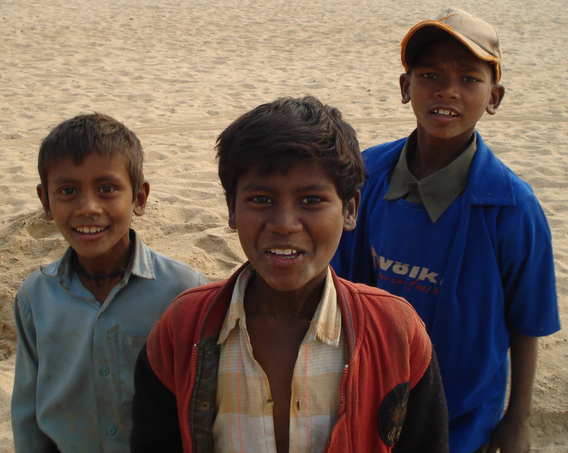 Children from a village in Bihar, India